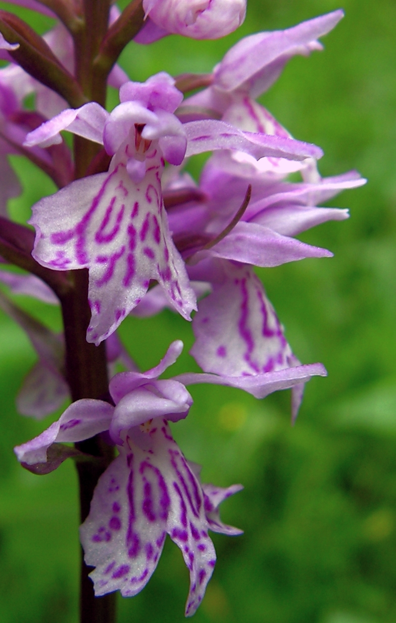 Dactylorhiza maculata. Moscow region, Russia